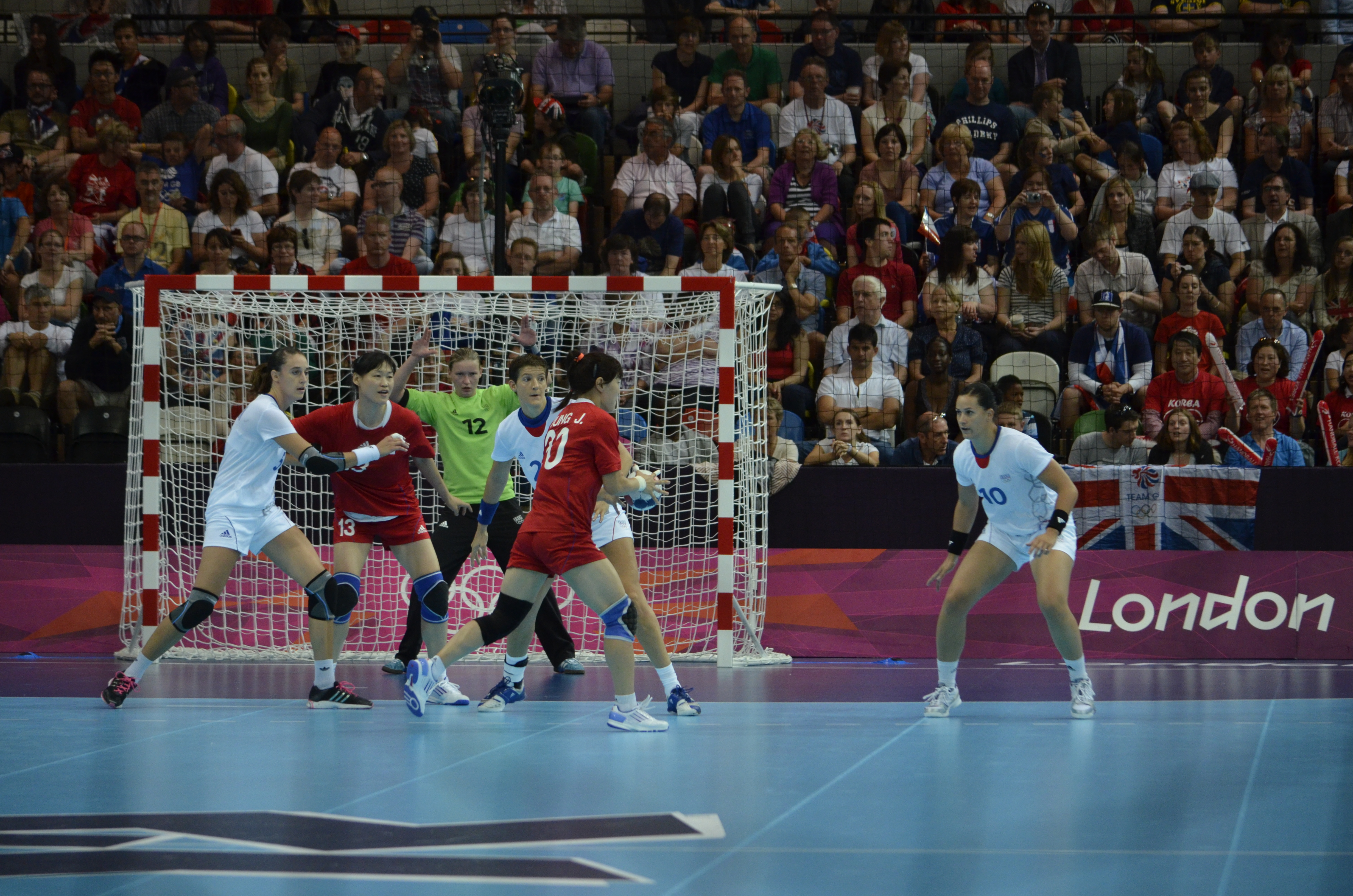 Handball at the 2012 Summer Olympics